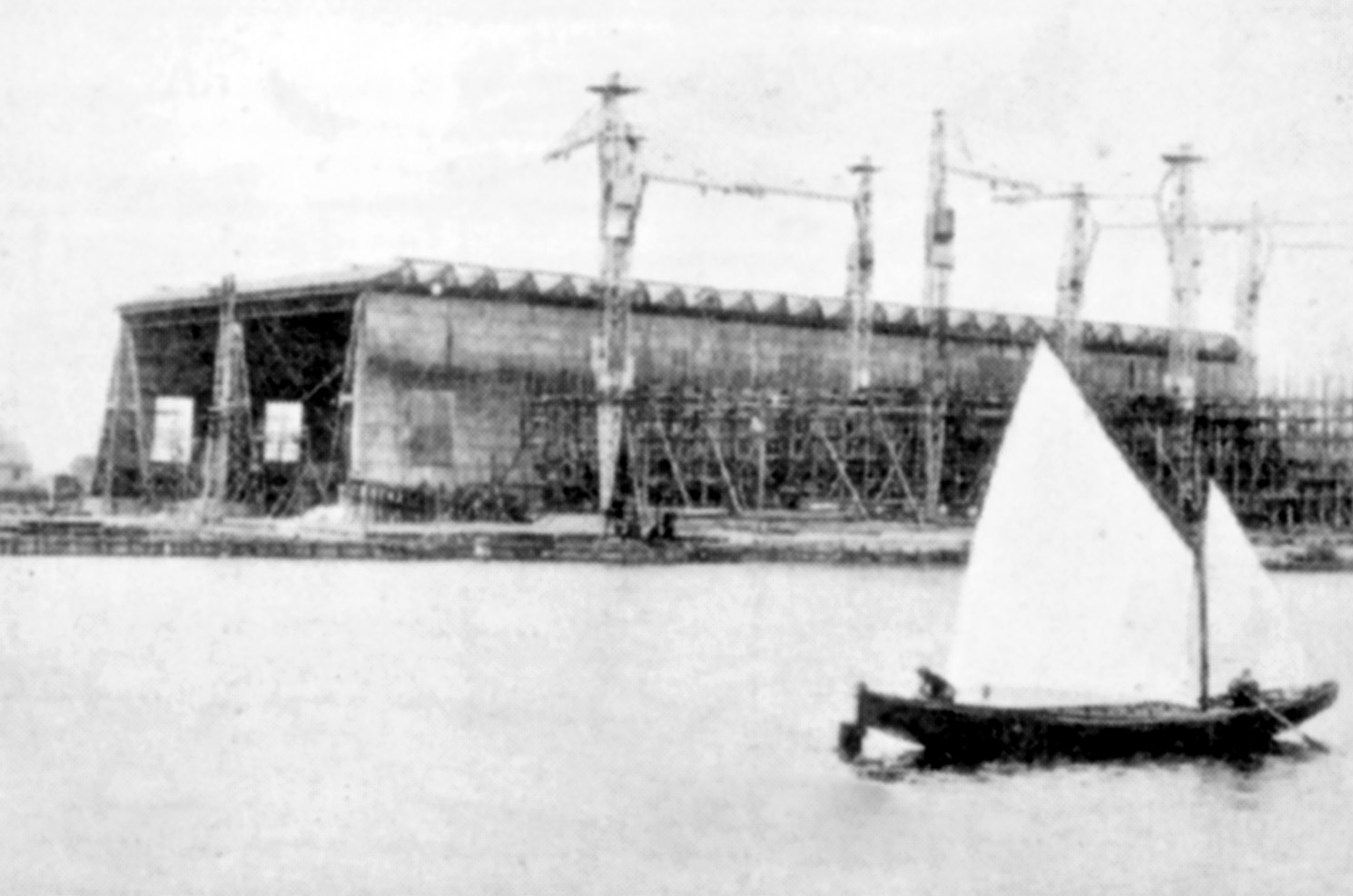 Old picture